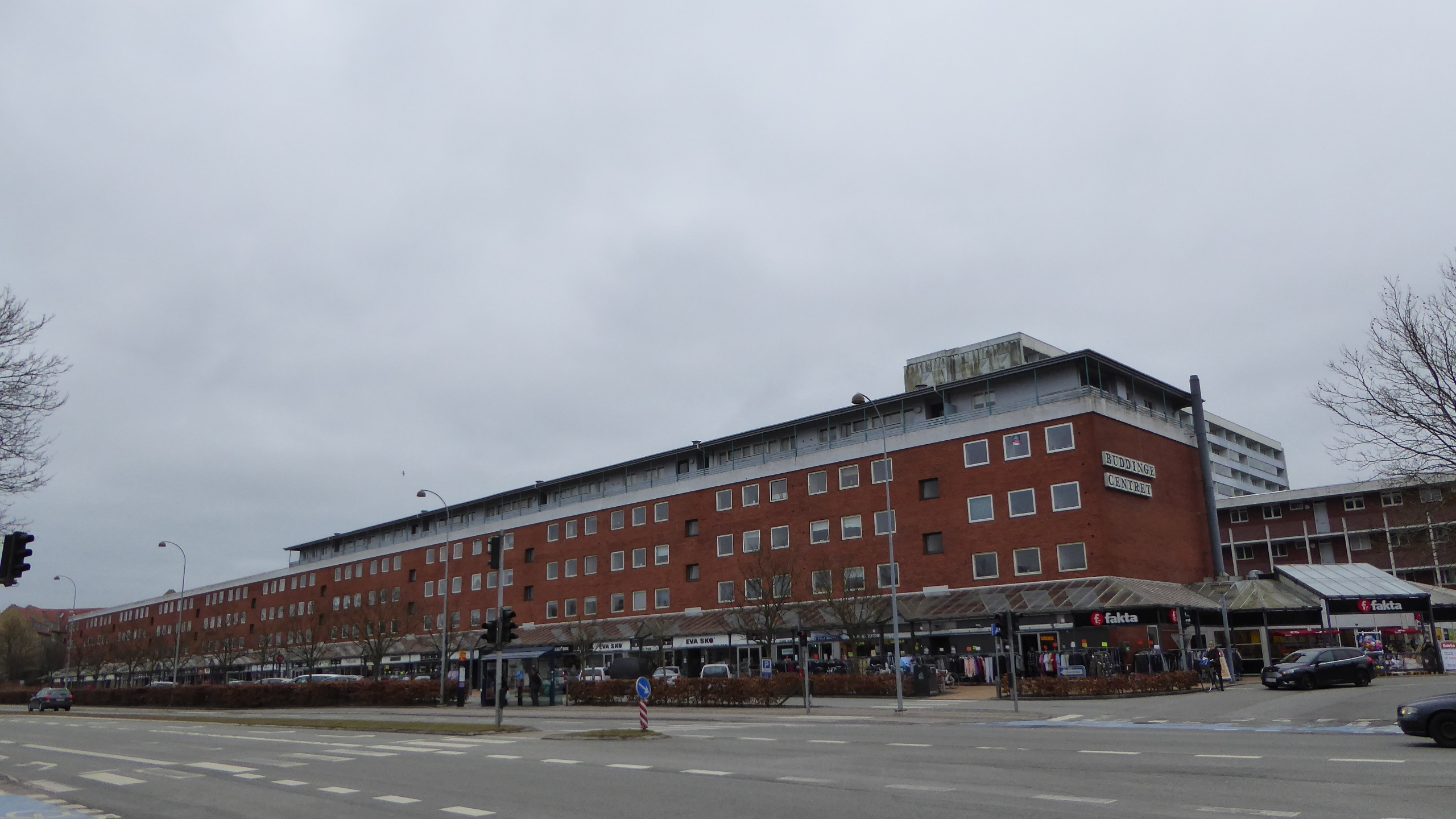 Apartment building with the shopping arcade Buddinge Centret at Søborg Hovedgade in Buddinge in Copenhagen.